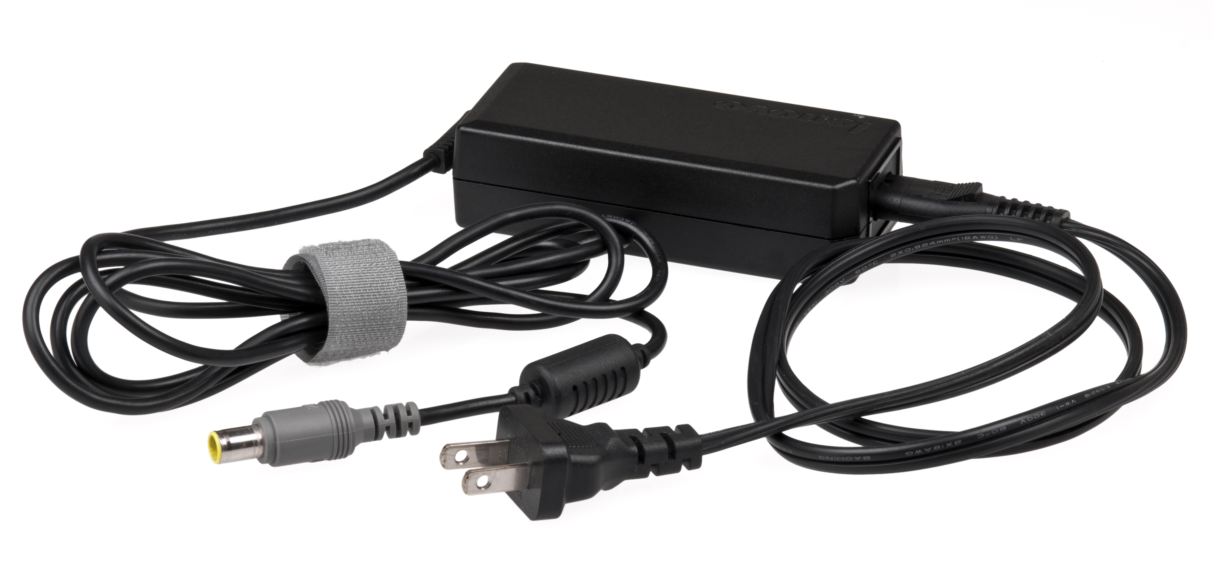 A notebook computer AC adapter, specifically a Lenovo X61 tablet laptop.